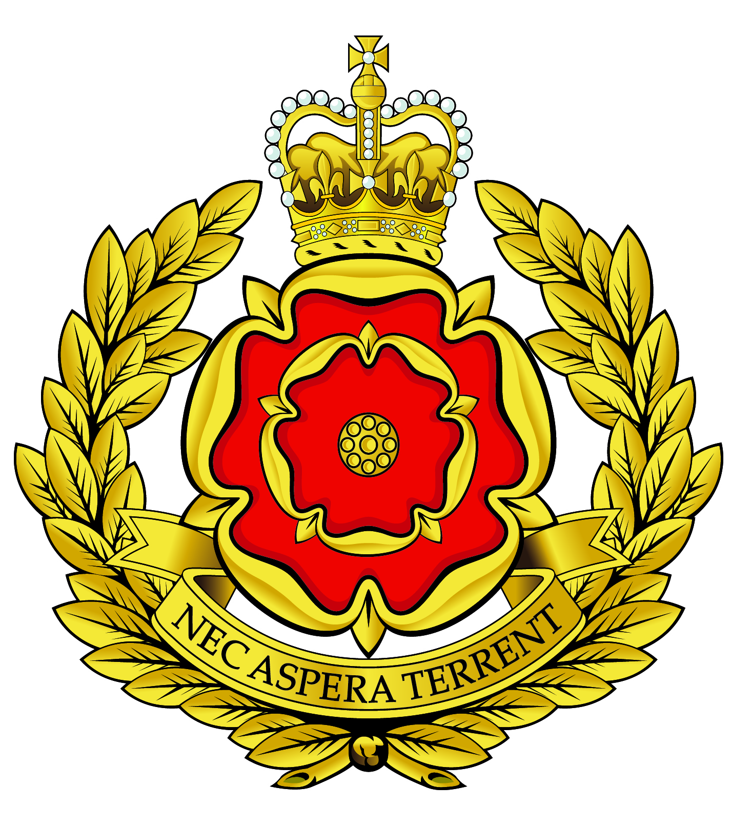 The cap badge of The Duke of Lancaster's Regiment. This is the correct version. The version with green leaves on it is no longer used.